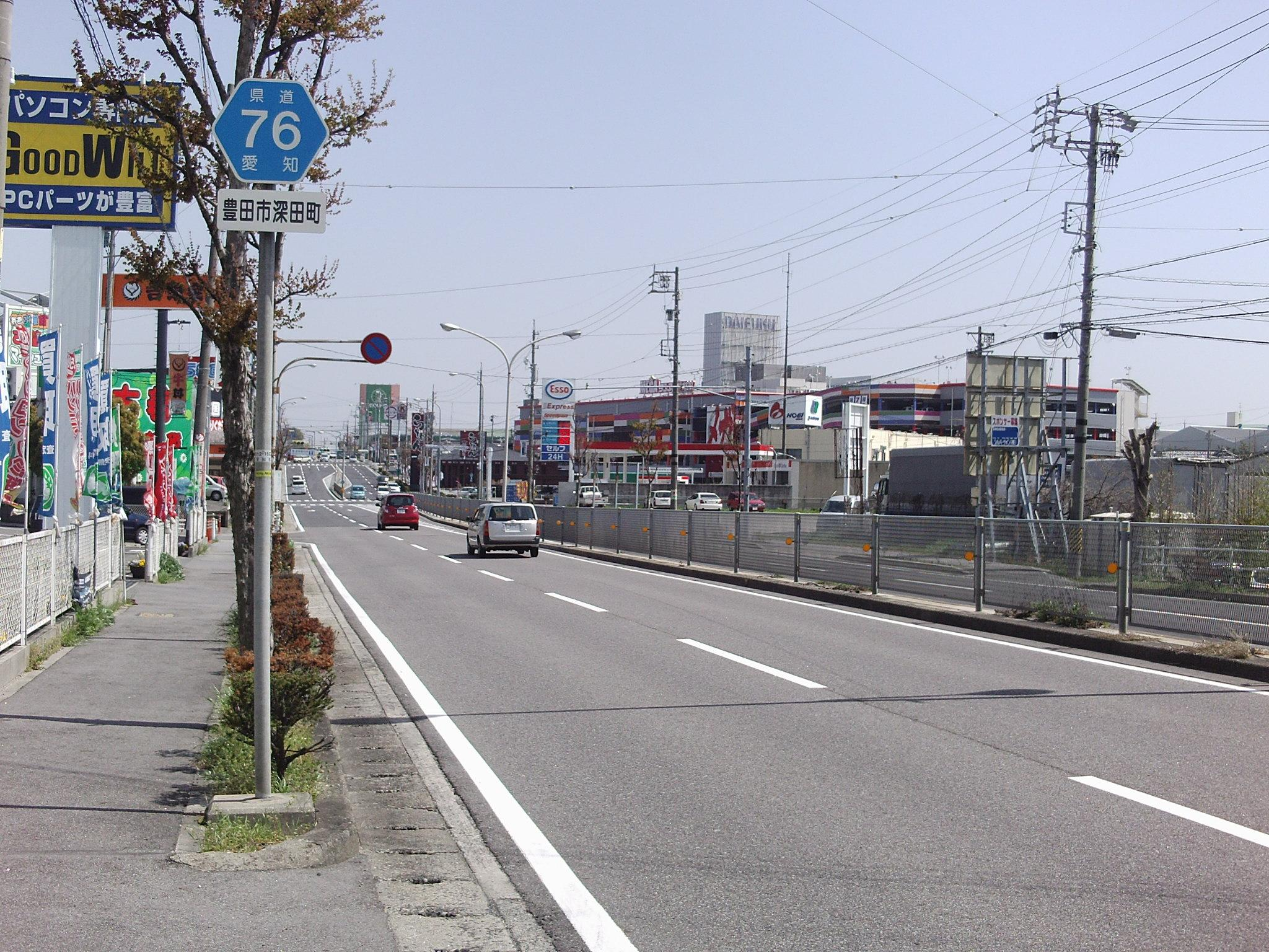 The Aichi Prefectural Road Route 76 in Fukadacho, Toyota City